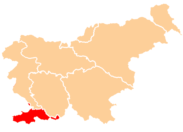 Map of Slovenian Istria